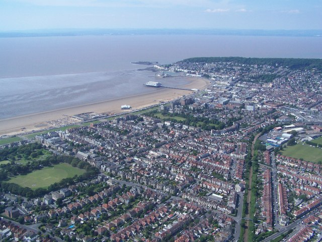 Weston-Super-Mare From a helicopter trip over the town